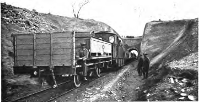 Windhoek-Keetmanshoop railway. Underpass of the railway under the road over the Auaspaß